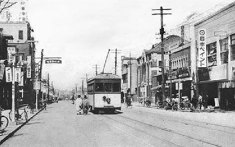 Tram on Yamatomachi Street (大和町通), Heijo (Pyongyang), Korea under the Japanese rule. The tram opened in 1923.